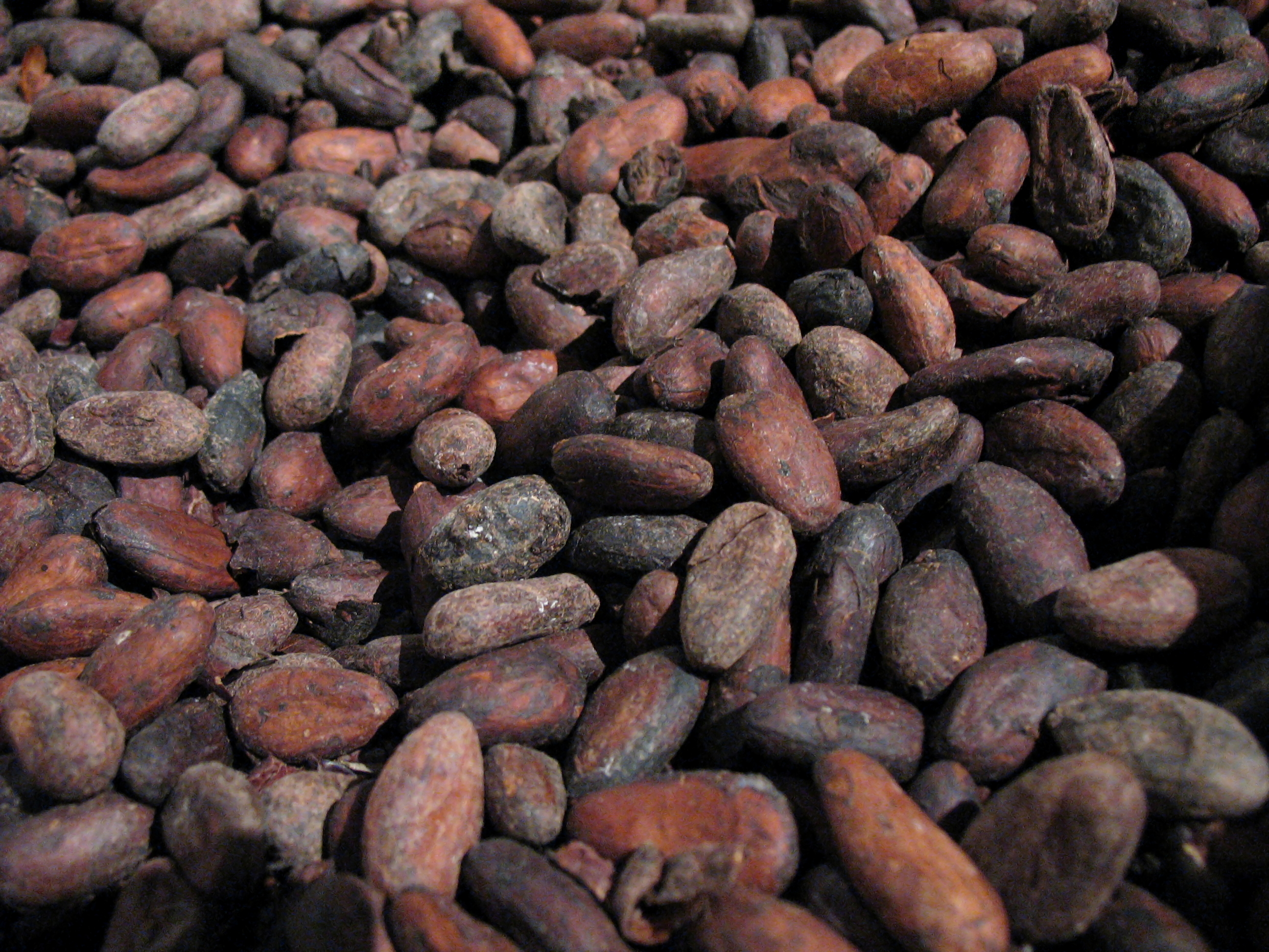 Chocolatier Nestlé of Broc , Switzerland, Canton of Fribourg. This image was improved or created by the Wikigraphists of the Graphic Lab (fr). You can propose images to clean up, improve, create or translate as well.